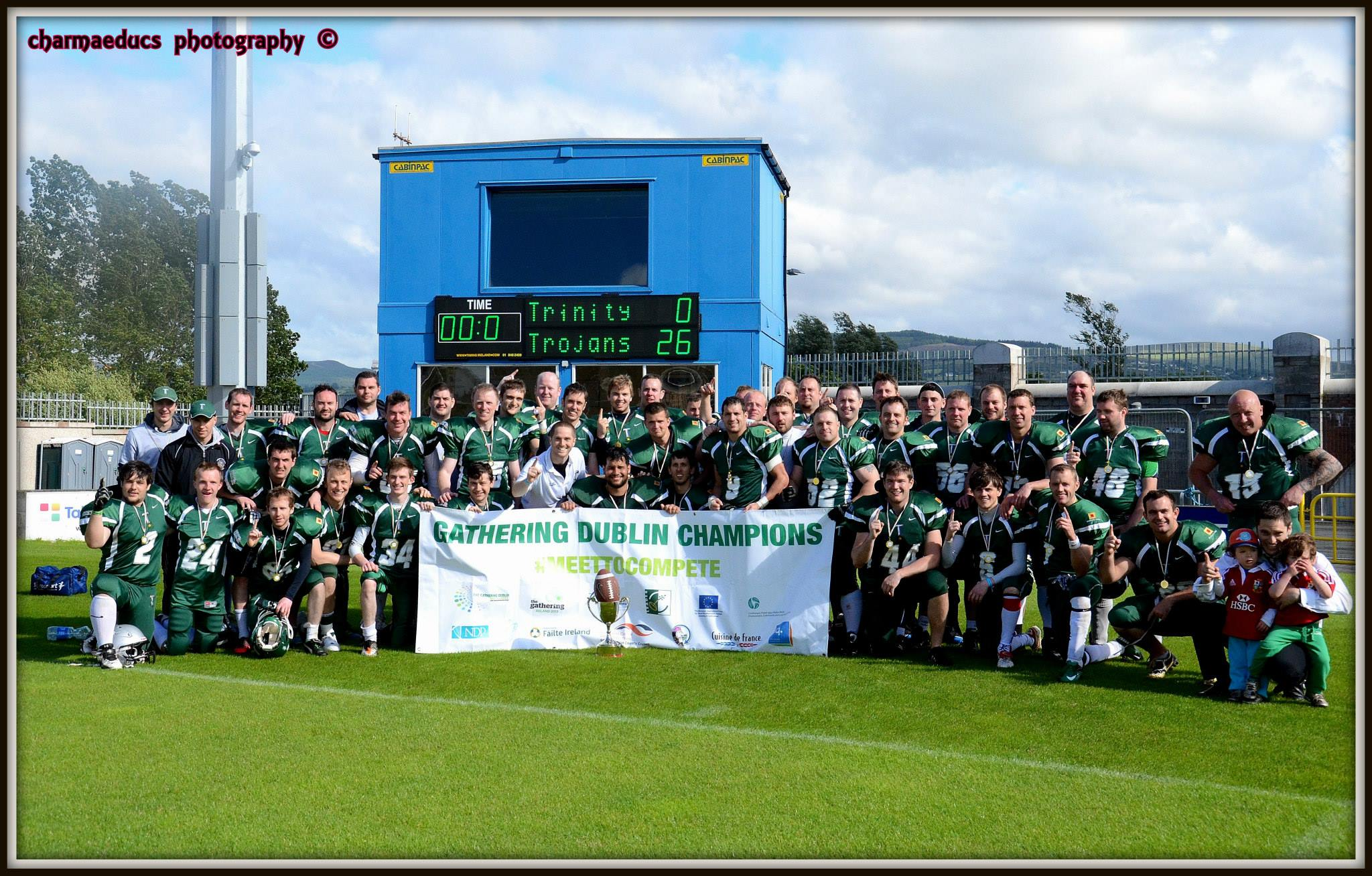 Belfast Trojans Atlantic Cup Champions 2013